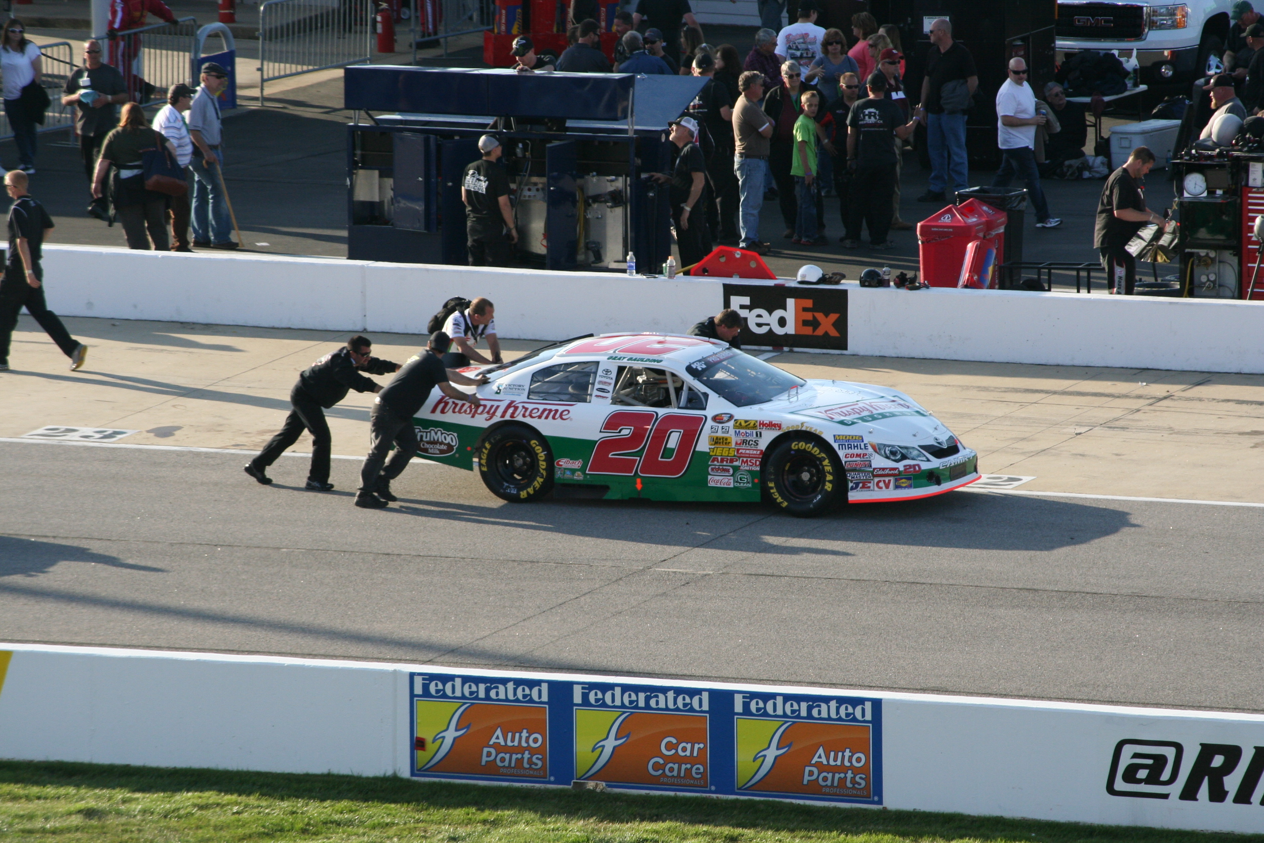 Gray Gaulding's #20 Krispy Kreme Toyota is pushed onto pit road at Richmond International Speedway, prior to winning the pole for the NASCAR K&N Pro Series East Blue Ox 100 on April 25 2013.